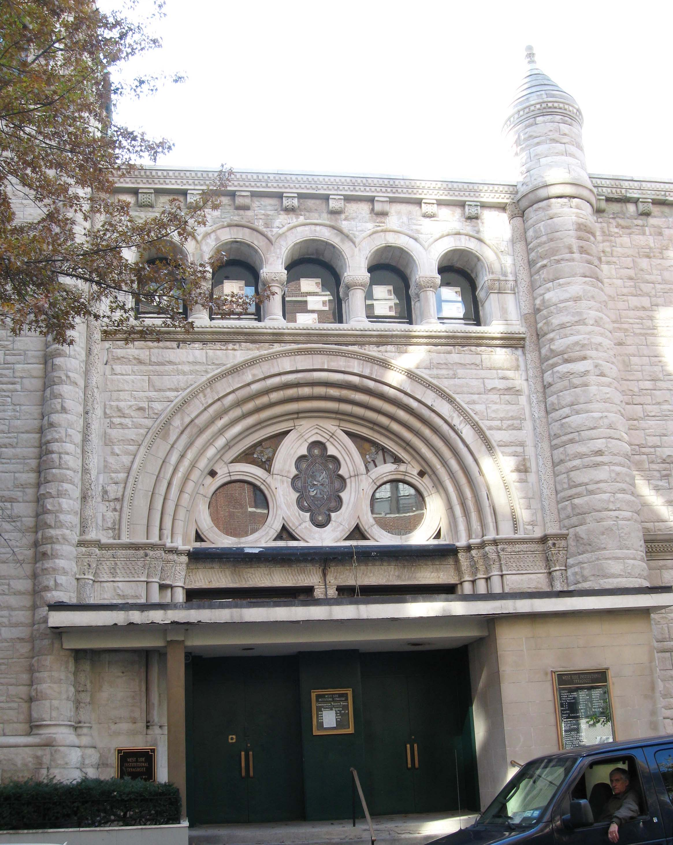 Looking south at West Side Institutional Synagogue, 120 West 76th Street, on a sunny midday. Herbert_S._Goldstein, architect.